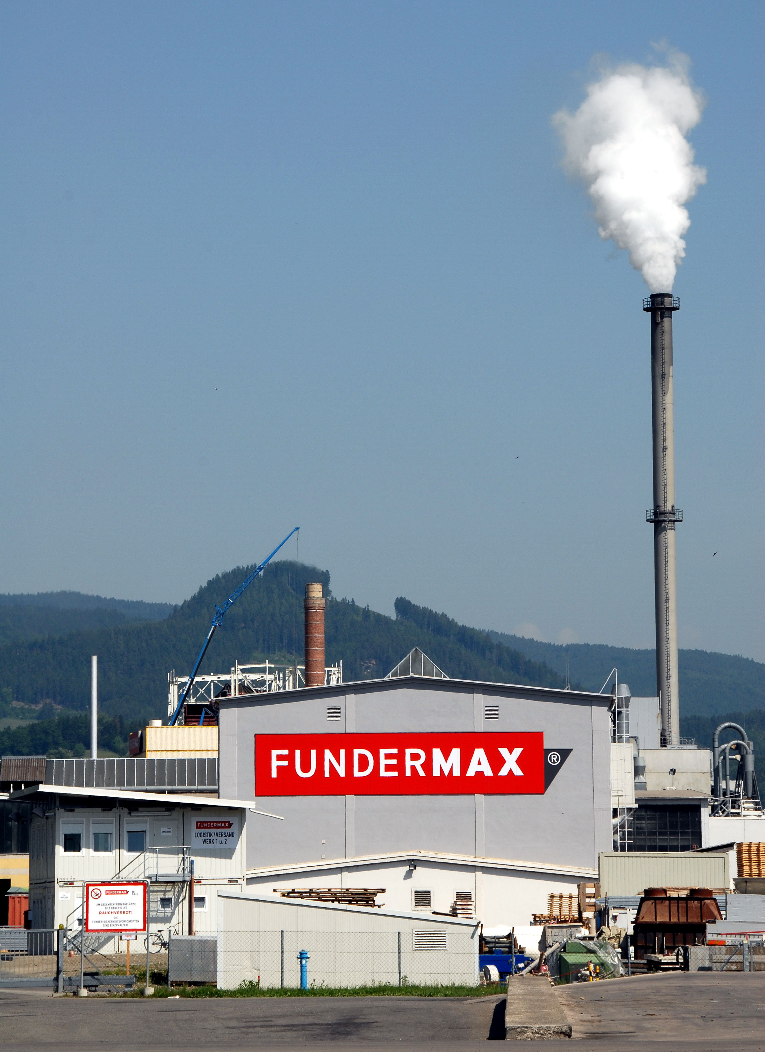 FunderMax facility #1 in the locality Glandorf, situated in the municipality Sankt Veit an der Glan, district Sankt Veit an der Glan, Carinthia, Austria